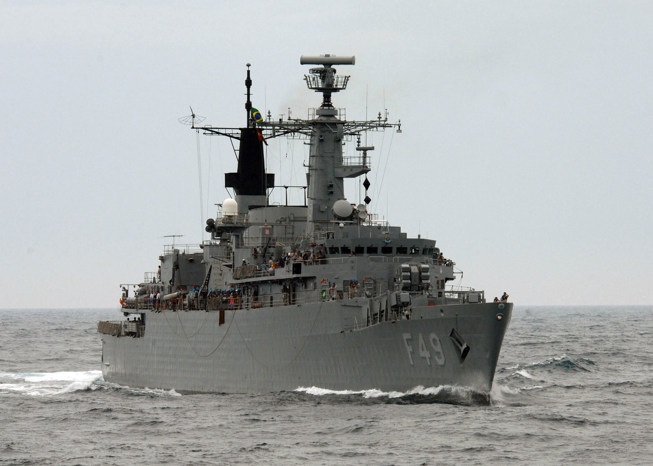 BNS Rademaker (F49), a type 22 frigate of the Brazilian Navy. The original description is wrong because this is the frigate of the Brazilian Navy Rademaker (F49)